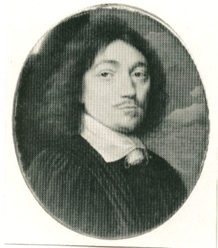 John Gauden (1605-1662)